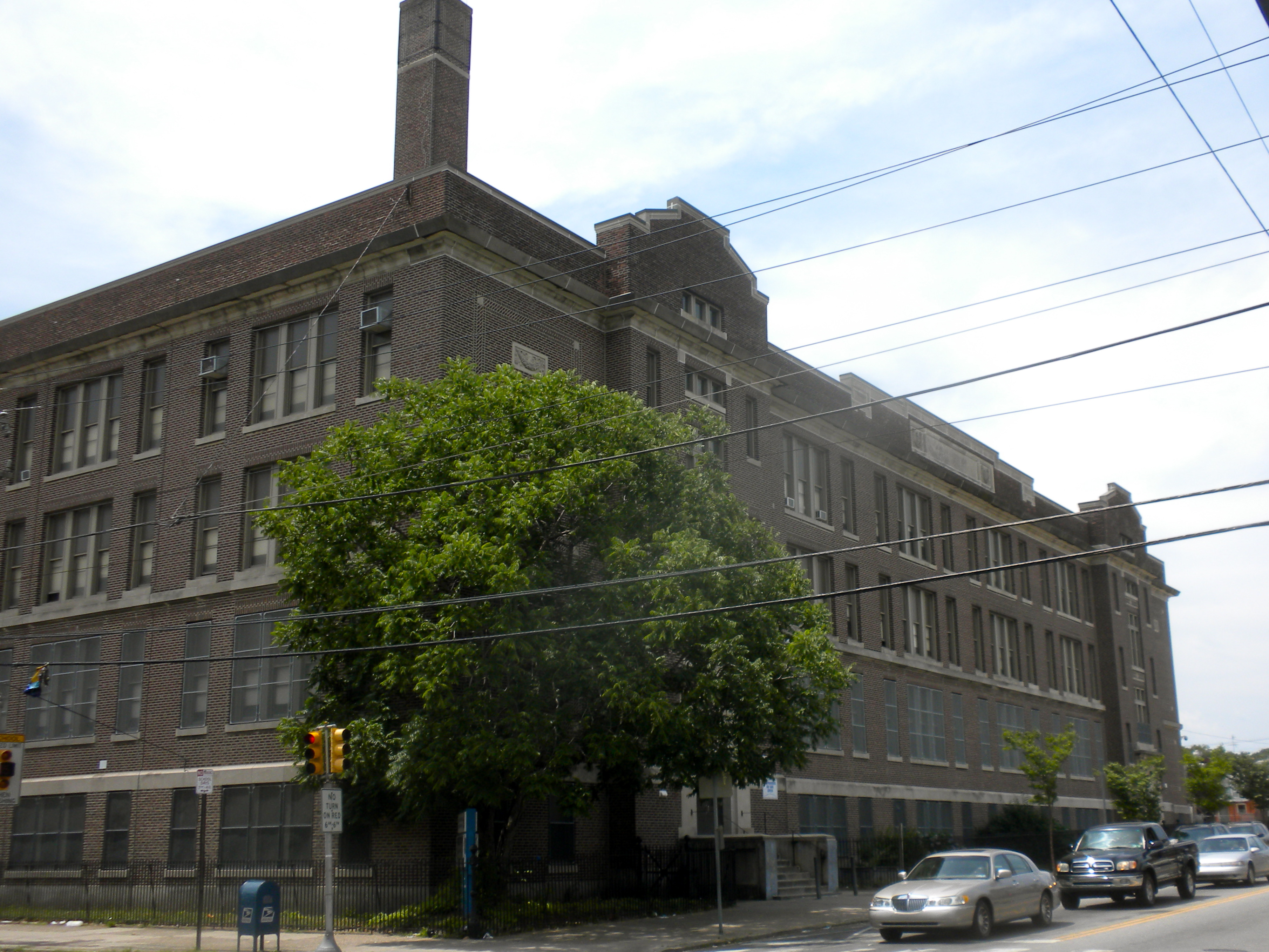 John M. Paterson School in SW Philadelphia on the NRHP since November 18, 1988. At 7001 Buist Avenue in the Penrose neighborhood